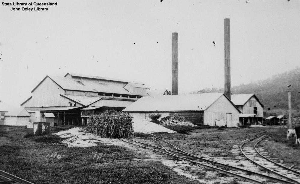 Mossman Sugar Mill, Queensland, 1920s View of the Mossman Sugar Mill with a load of cane waiting on the tram lines that run in and out of the mill, in the 1920s.